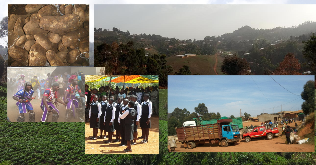 A collage of images form Mmuock Leteh